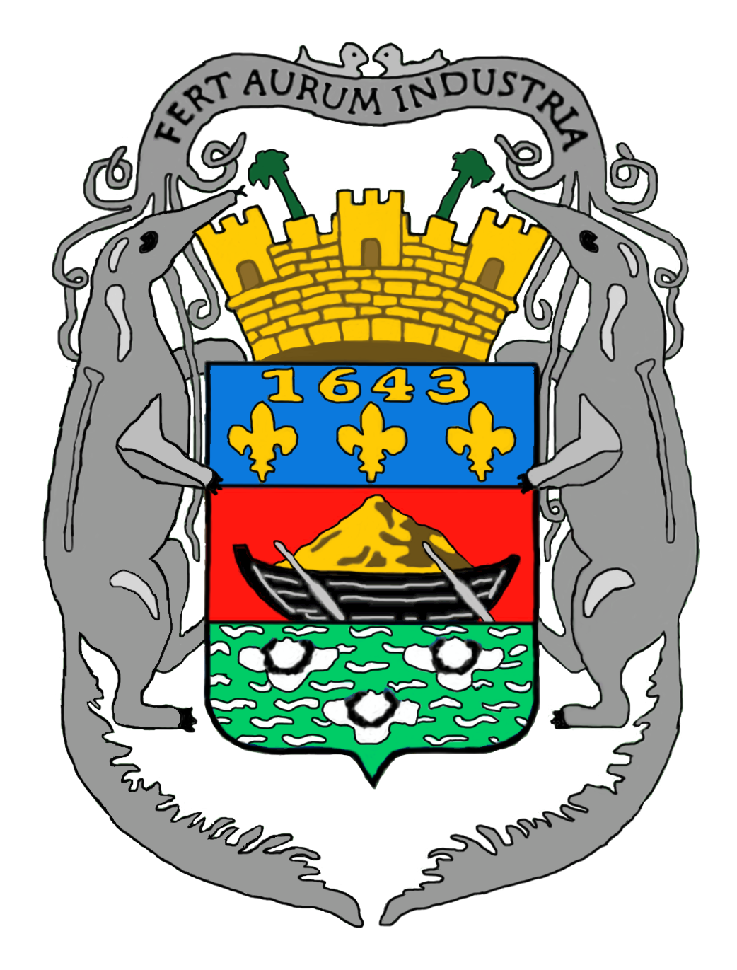 Coat of Arms of French Guyana Picture edited by Adobe Fireworks CS4 [1] [2] [3]